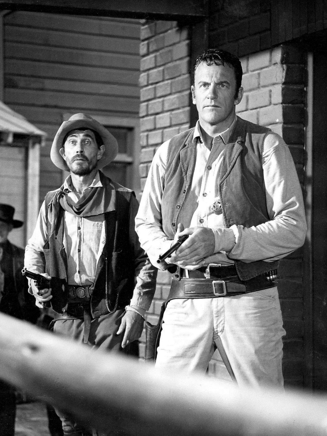 Photo of Ken Curtis as Festus Hagen and James Arness as Matt Dillon from Gunsmoke.